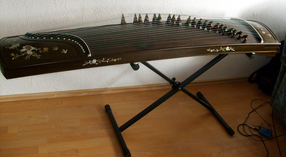 This is a Mongolian Yatga. This instrument has a length of 63" or 1.62 m. The instrument is very similar to the Chinese Guzheng and is related to the Korean Kayegum, Japanese Koto and Vietnamese Dan Tranh.